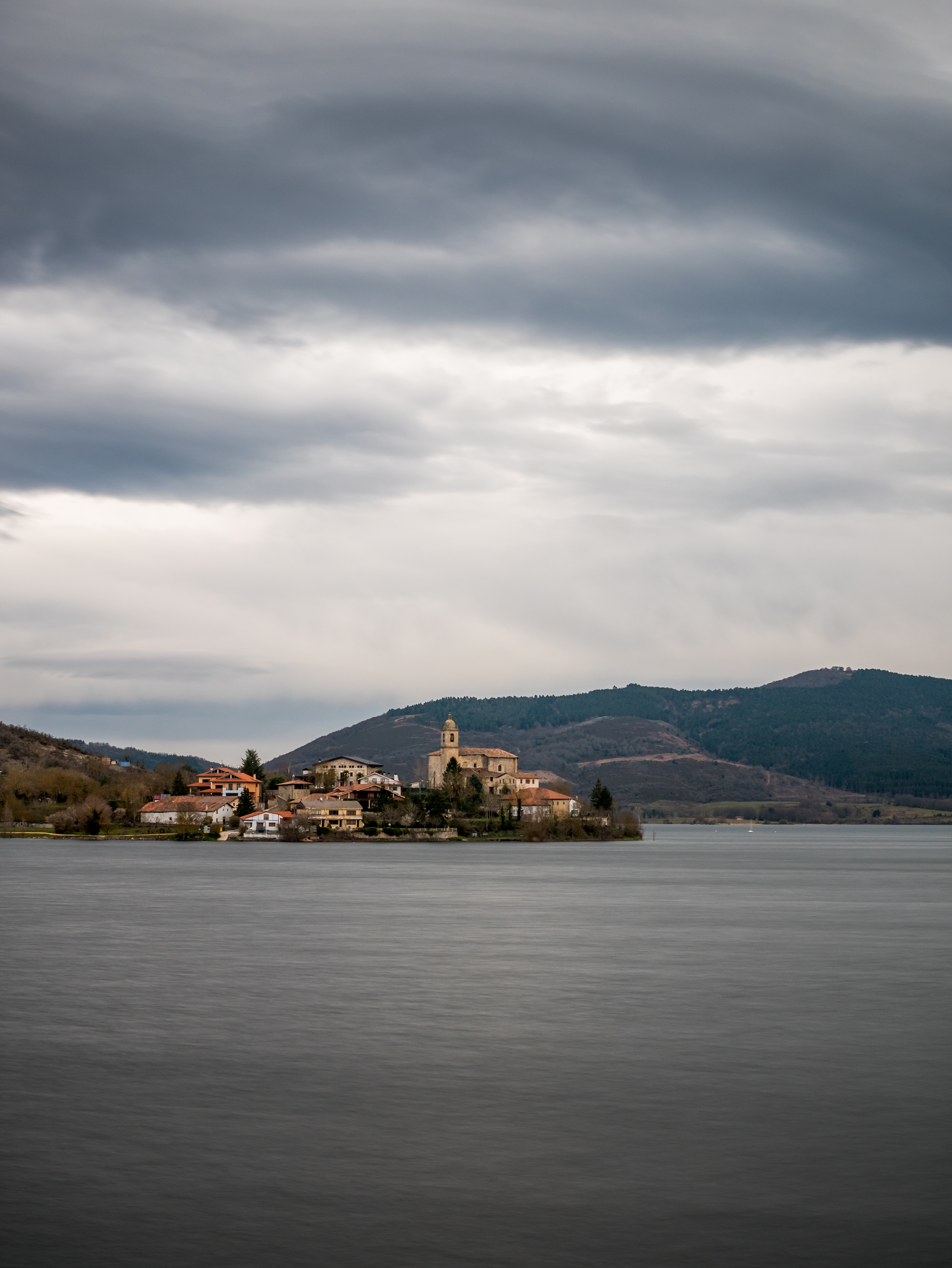 Ullíbarri-Gamboa. Álava, Basque Country, Spain